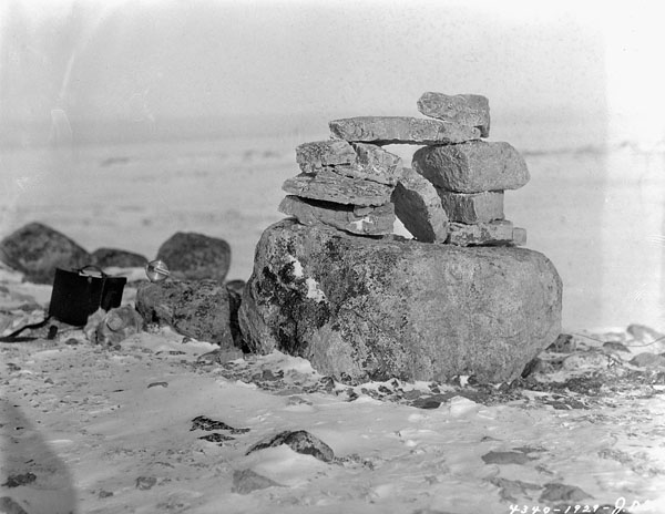 Inukshuk on top of the limestone plateau at the northern extremity, Baffin Island, Nunavut, Canada, 31 March 1929.